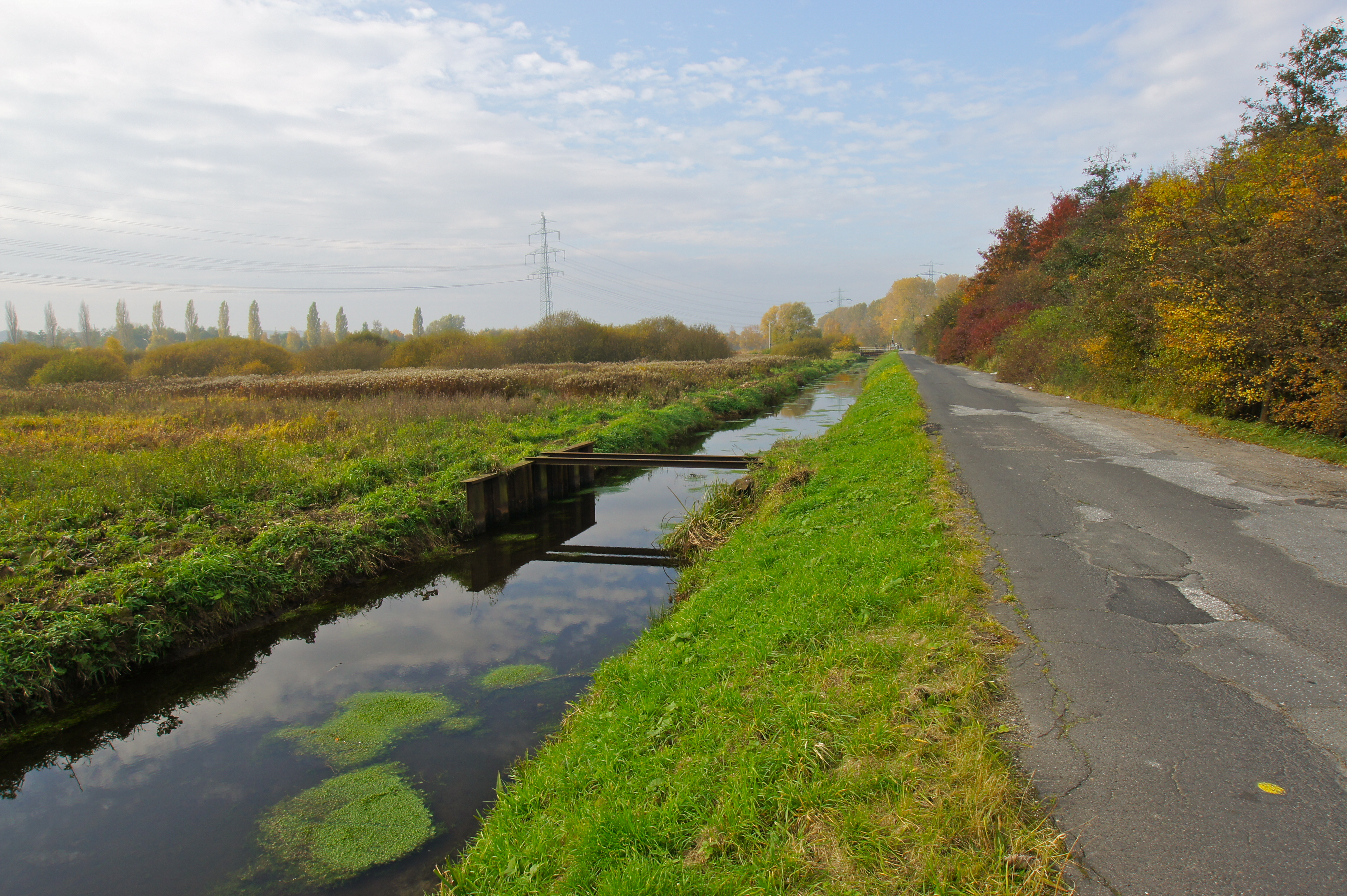 Hamburg (Moorburg), Germany: The Industriekanal at the Moorburger Hinterdeich